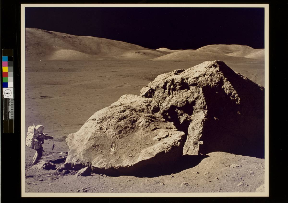 Digital Accession Number: 1992:0007:0005.0001 Maker: NASA Title: Apollo 17 Astronaut Harrison Schmitt Collects Lunar Rock Samples Date: December 14, 1972 Medium: color print, chromogenic development (Ektacolor) process Dimensions: Image: 26.5 x 34.2 cm . Overall: 27.6 x 35.6 cm George Eastman House Collection · ·